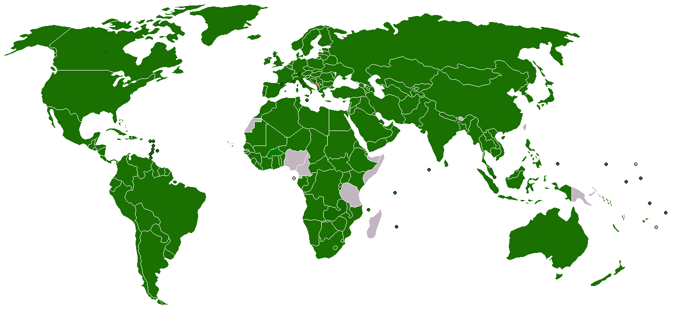 A world map to show the foreign relations of Montenegro. Dark Green = recognition and diplomatic relations, light green = just recognition. Grey = status with Montenegro unknown. The map is based on the Wikipedia world map.